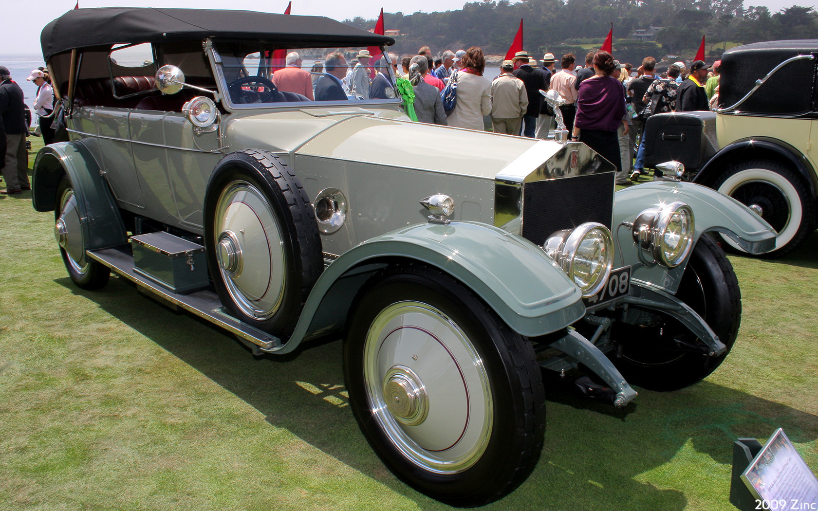 Pebble Beach Concours dElegance, Aug 16, 2009